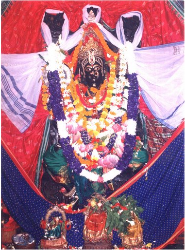 Maa Mangala